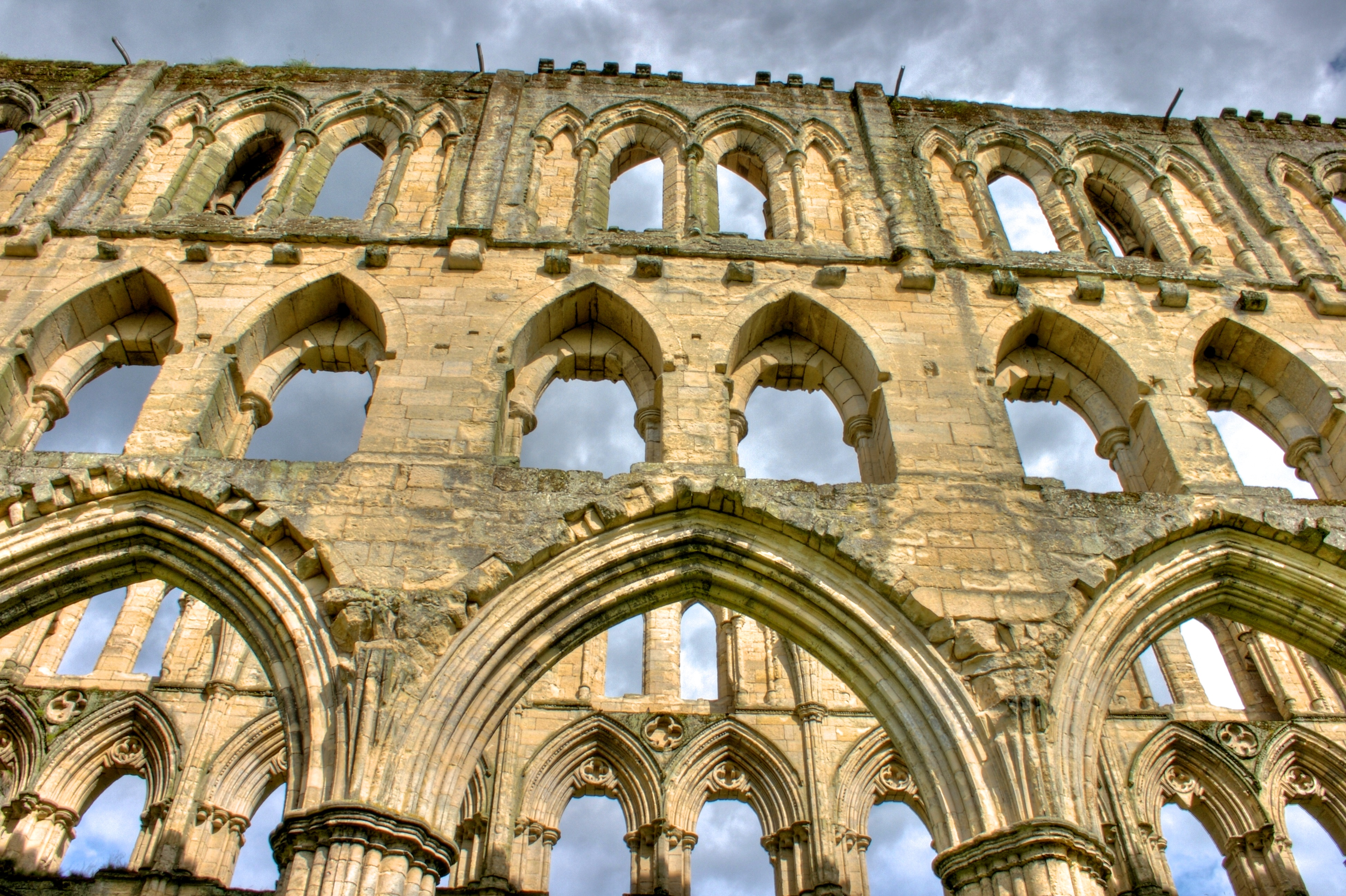 Ruins of Rievaulx Abbey, England.